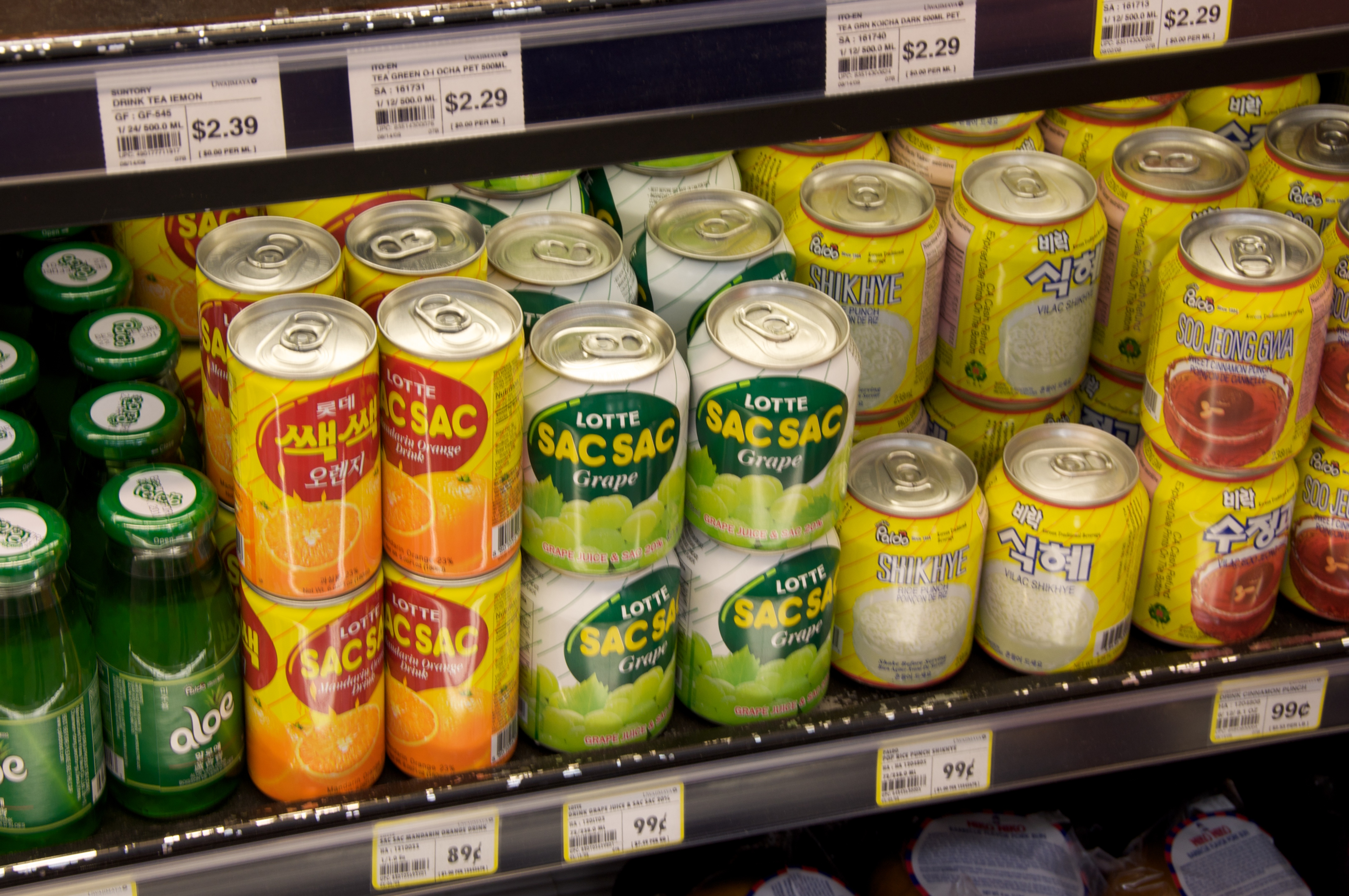 Sac sac cans in an Uwajimay store, an Asian grocery store.